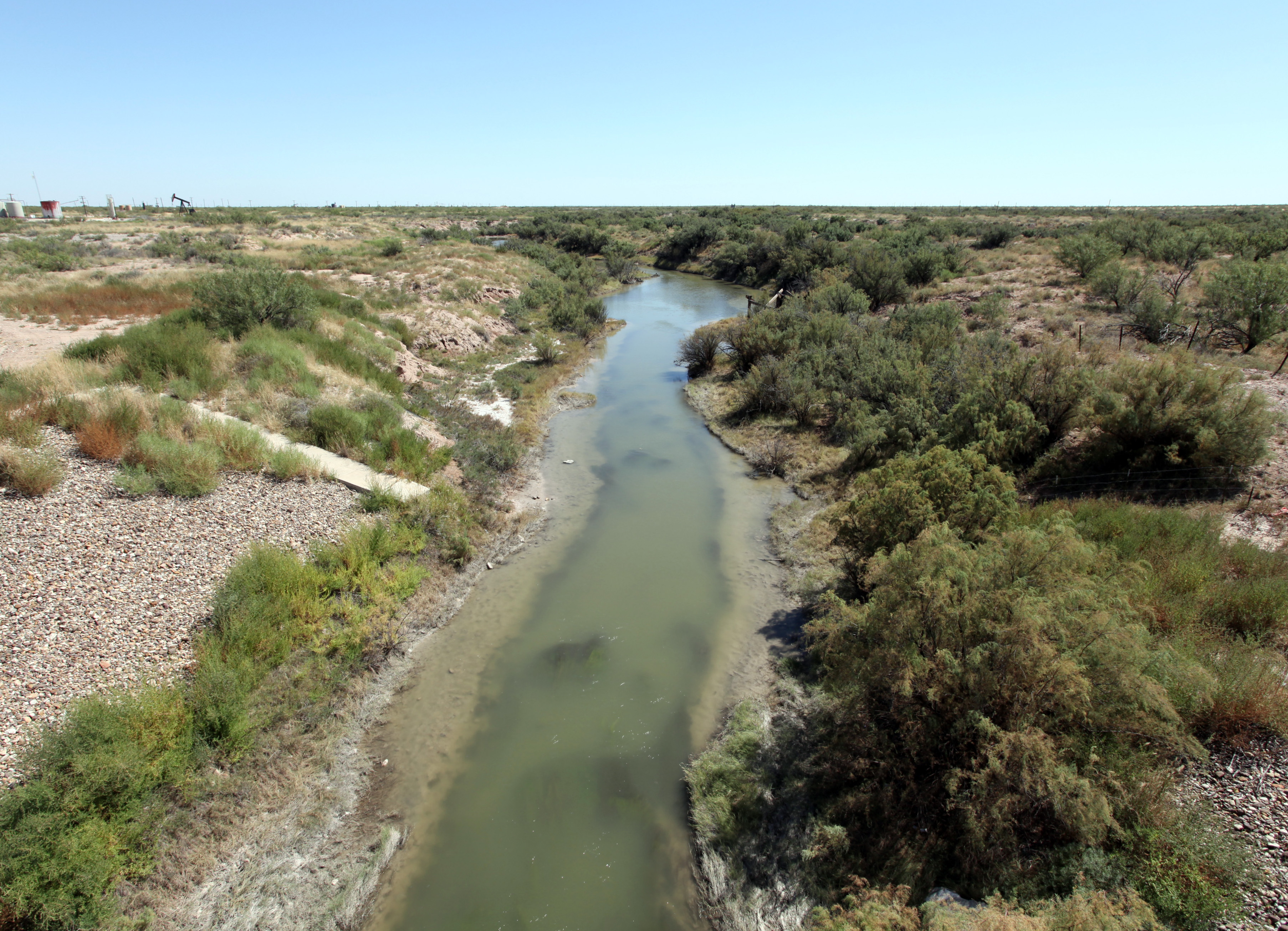 The much abused Pecos River barely flowing south of Grandfalls, Texas. Viewed from the Texas State Highway 18 bridge.